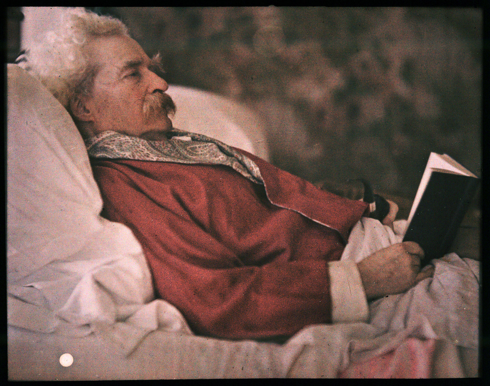 Autochrome of Mark Twain late in his life